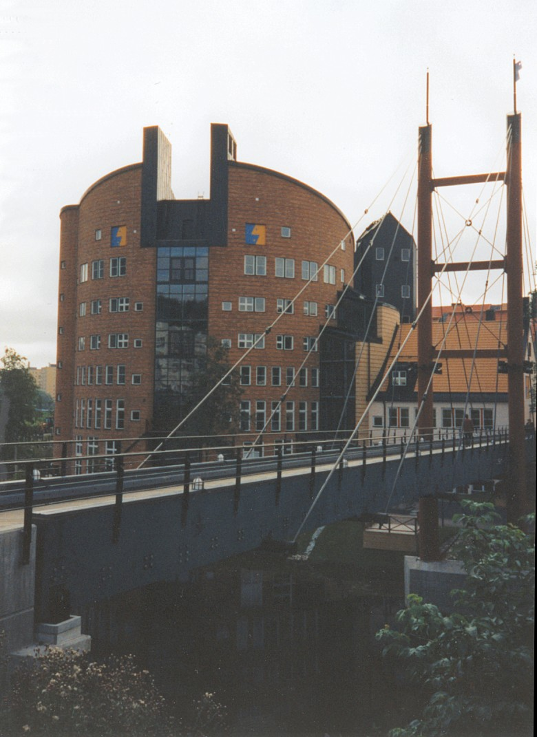 Mid Sweden University, Campus Sundsvall (Åkroken), Sweden